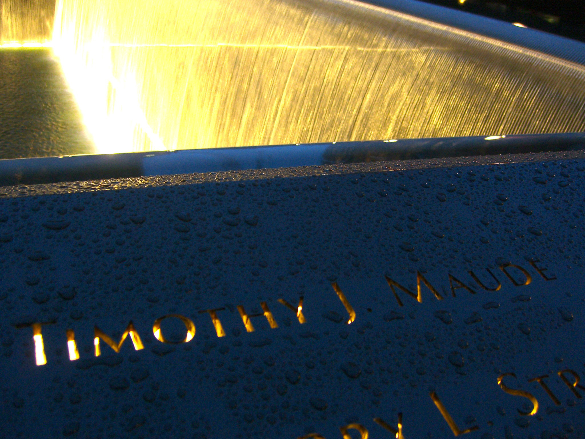 The name of Timothy Maude, the highest ranking military officer killed in the September 11 attacks, is seen among those of other people killed at the Pentagon, inscribed on bronze panel S-74 of the South Pool of the National September 11 Memorial in Manhattan, as seen on December 6, 2011. This photo was created by Luigi Novi. If you have any questions, you can contact me by sending me an email or User talk:Nightscream